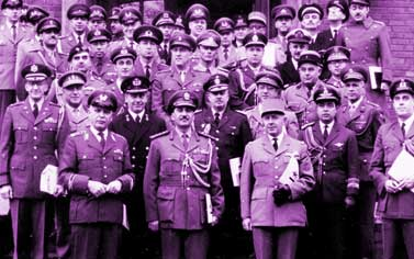 Mohammed Ahmed Sadek, an Egyptian military attaché in Germany, German officers and military attaches of other countries